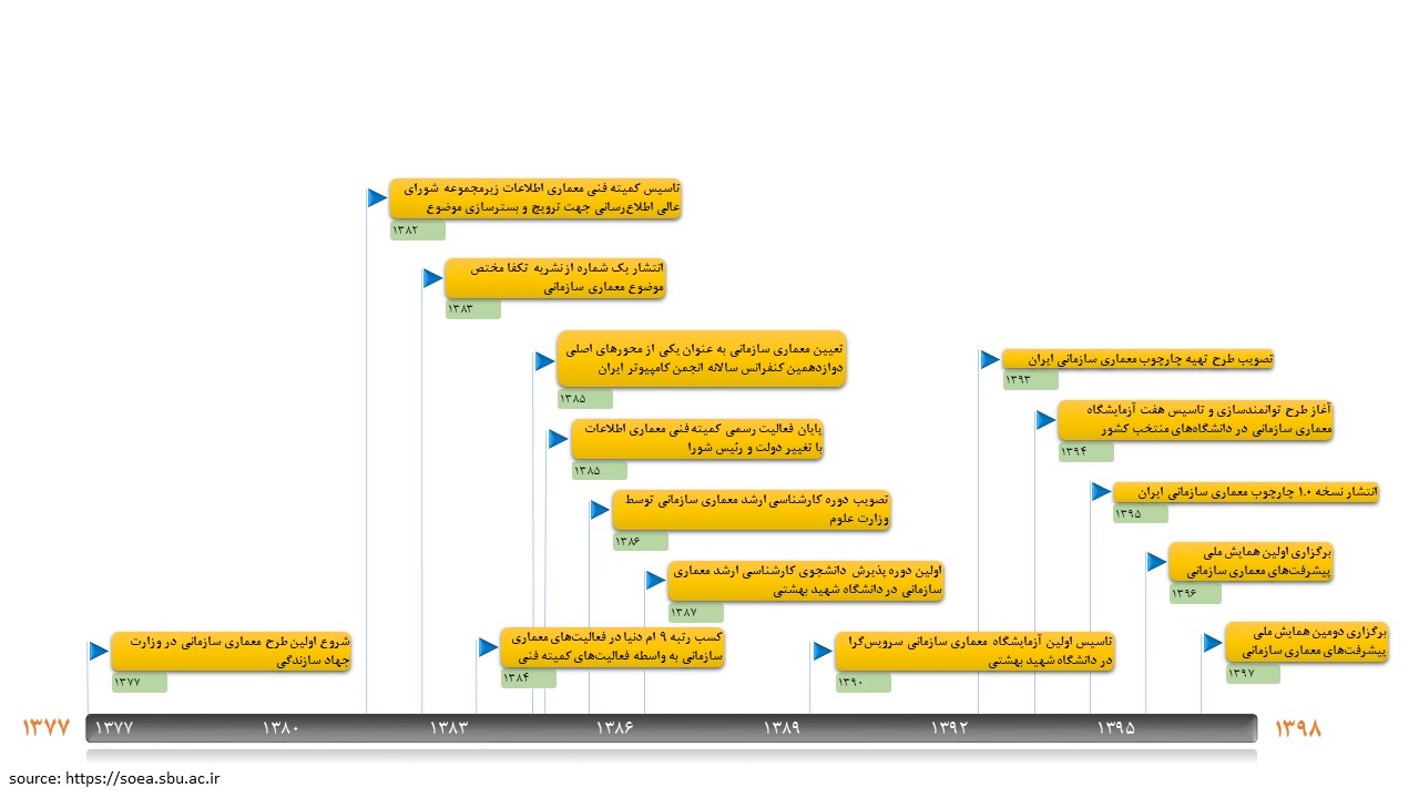 enterprise architectore persian event